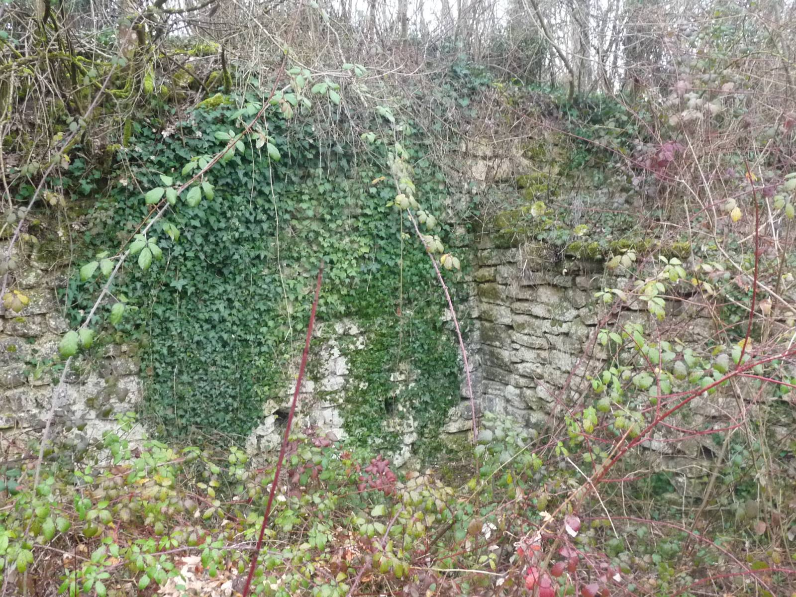 castle of Andone, Xth century, Villejoubert, Charente, SW France